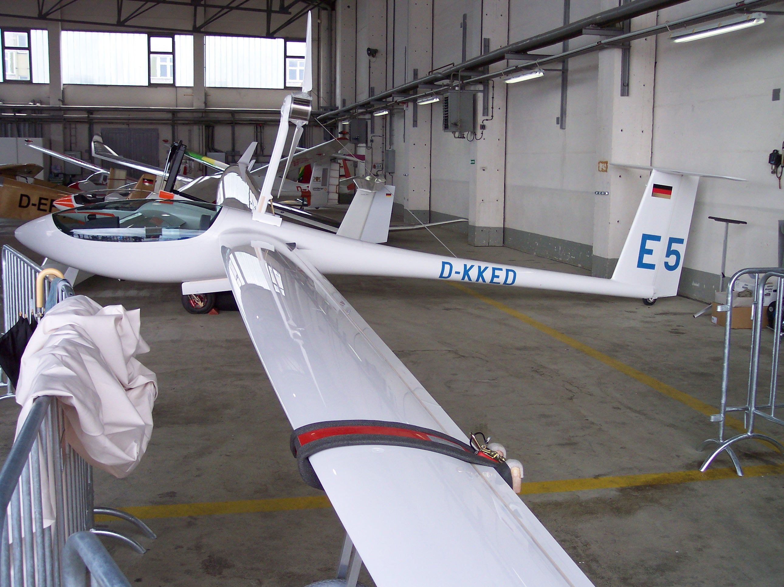 Lange Flugzeugbau Antares 20E. Production no. 23, flown at ILA 2006 by Ola Røer Thorsen